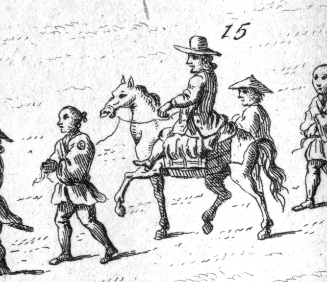 Part of table 22 in Engelbert Kaempfer's "The History of Japan" showing Engelbert Kaempfer and his personal servant ("Ein holländischer Chirurgyn mit einem Leibdiener"), the latter being Imamura Gen'emon Eisei